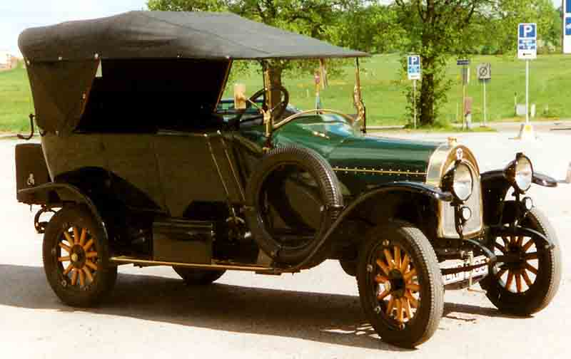 Scania-Vabis Type I Phaeton 1917